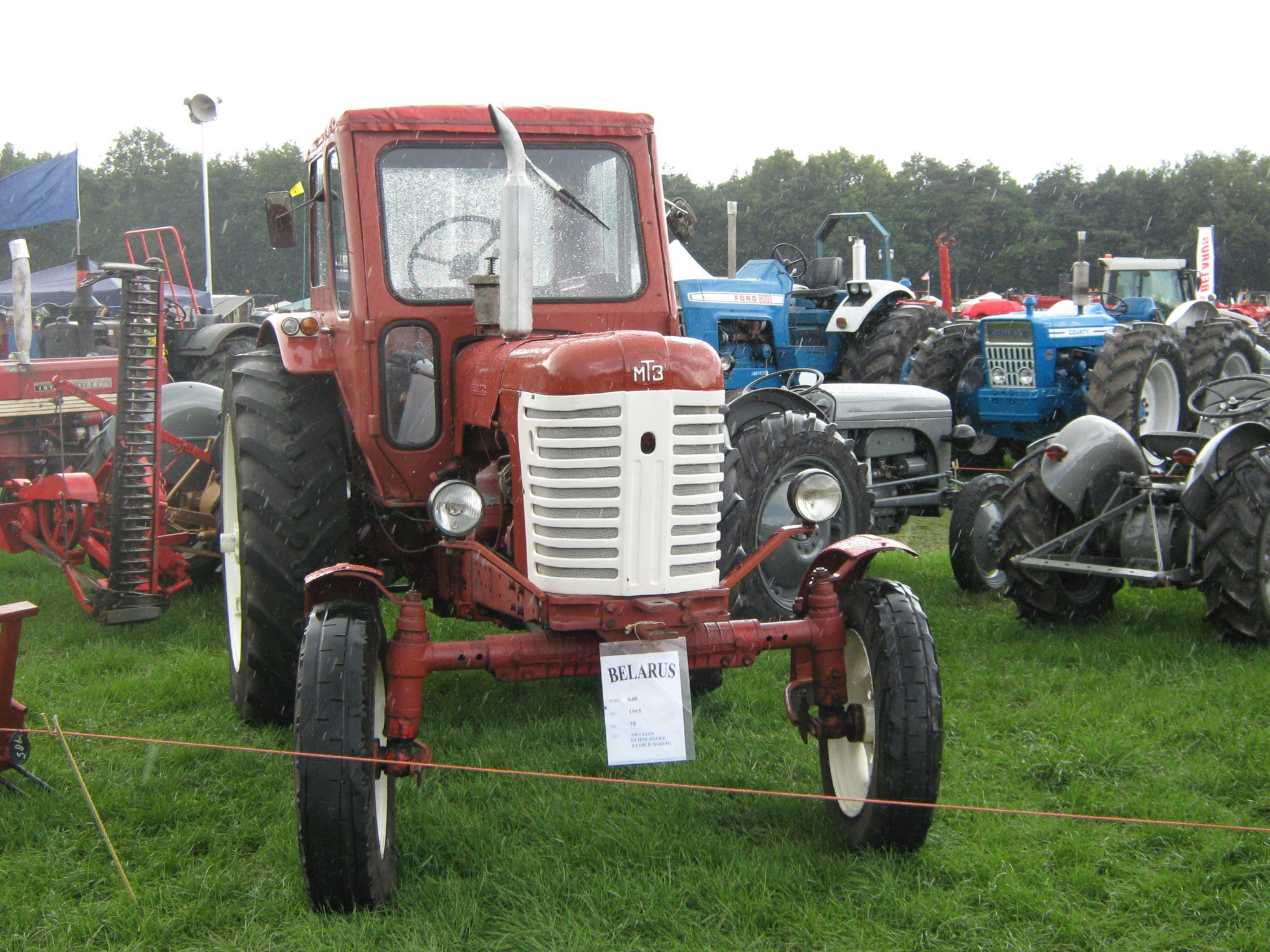 A Tractor, Red Tractor